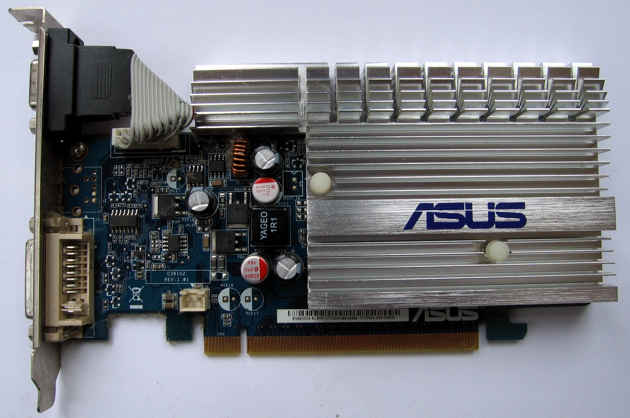 ASUS EN8400GS Silent/P/512M GeForce 8400 GS 512MB 64-bit DDR2 PCI Express 2.0 x16 Video Card